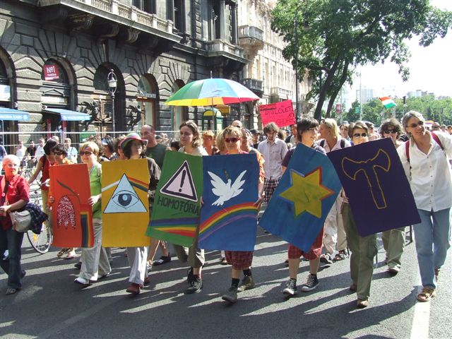 Gay pride in Budapest, 4th of July 2008